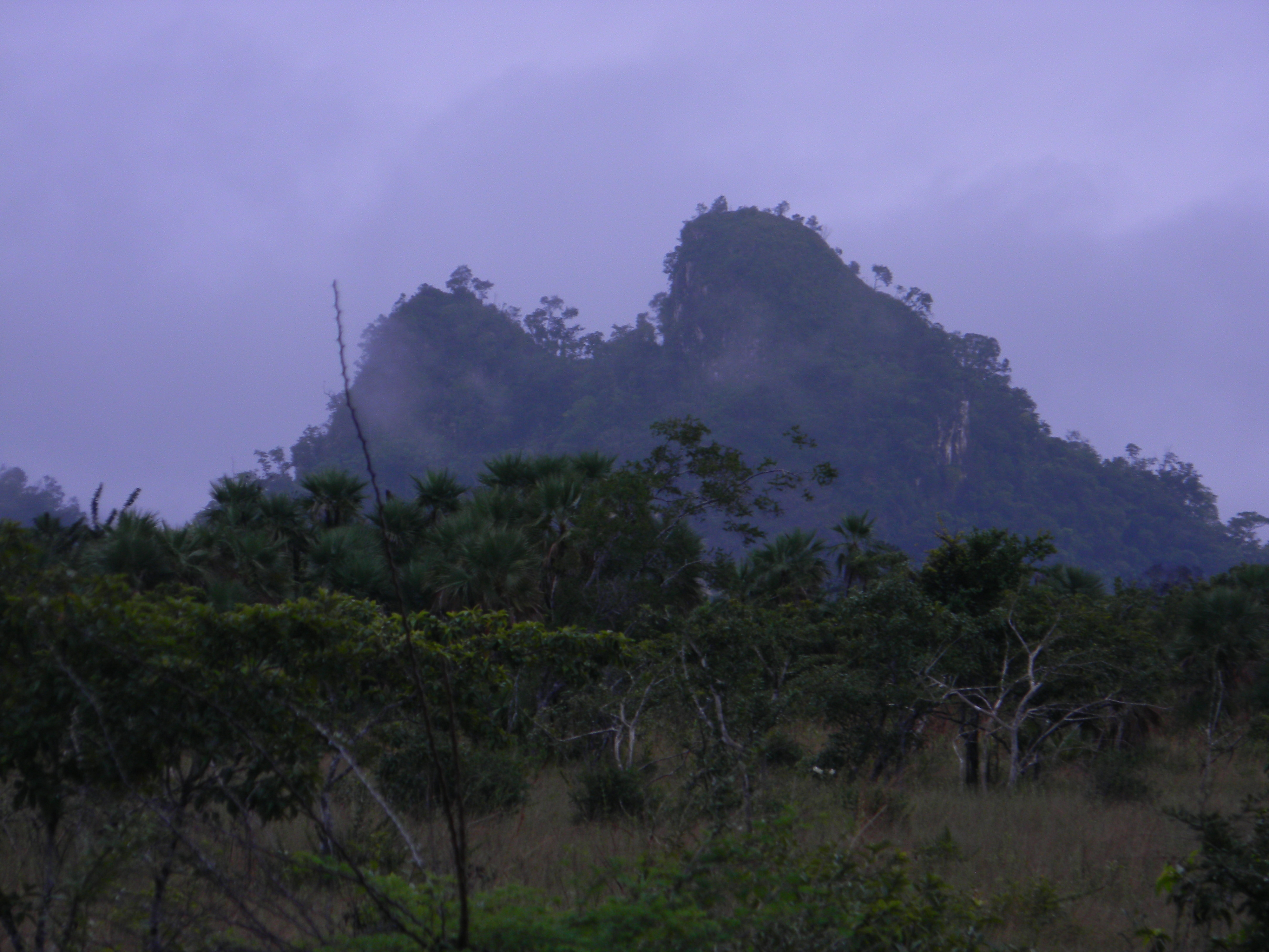 Belize mountians, Cayo distric